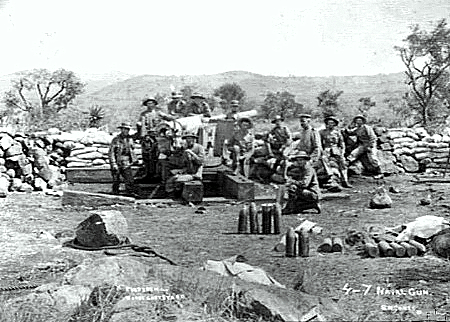 NATAL, SOUTH AFRICA, C.1900. CREW OF A 4.7 INCH NAVAL GUN FIRING ON BOER POSITIONS ON PIETER'S HILL WHICH COMMANDED THE ROAD TO LADYSMITH. (DONOR: T. COLLINS;) NOTE : This version of the photograph has brightness and contrast artificially increased to highlight details.